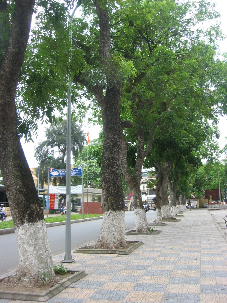 Khaya senegalensis in Hanoi University of Technology, Hanoi, Vietnam